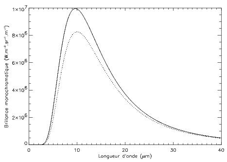 Diagram showing the distribution of the monochromatic brightness for a black body for two temperatures: 293 and 300K, with respect to the wavelength from 0(...) to 40 microns. Legends are in french.